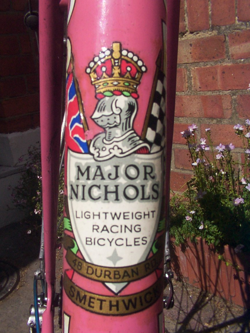 Major Nichols Head Transfer ,48 Durban Rd,Smethwick.